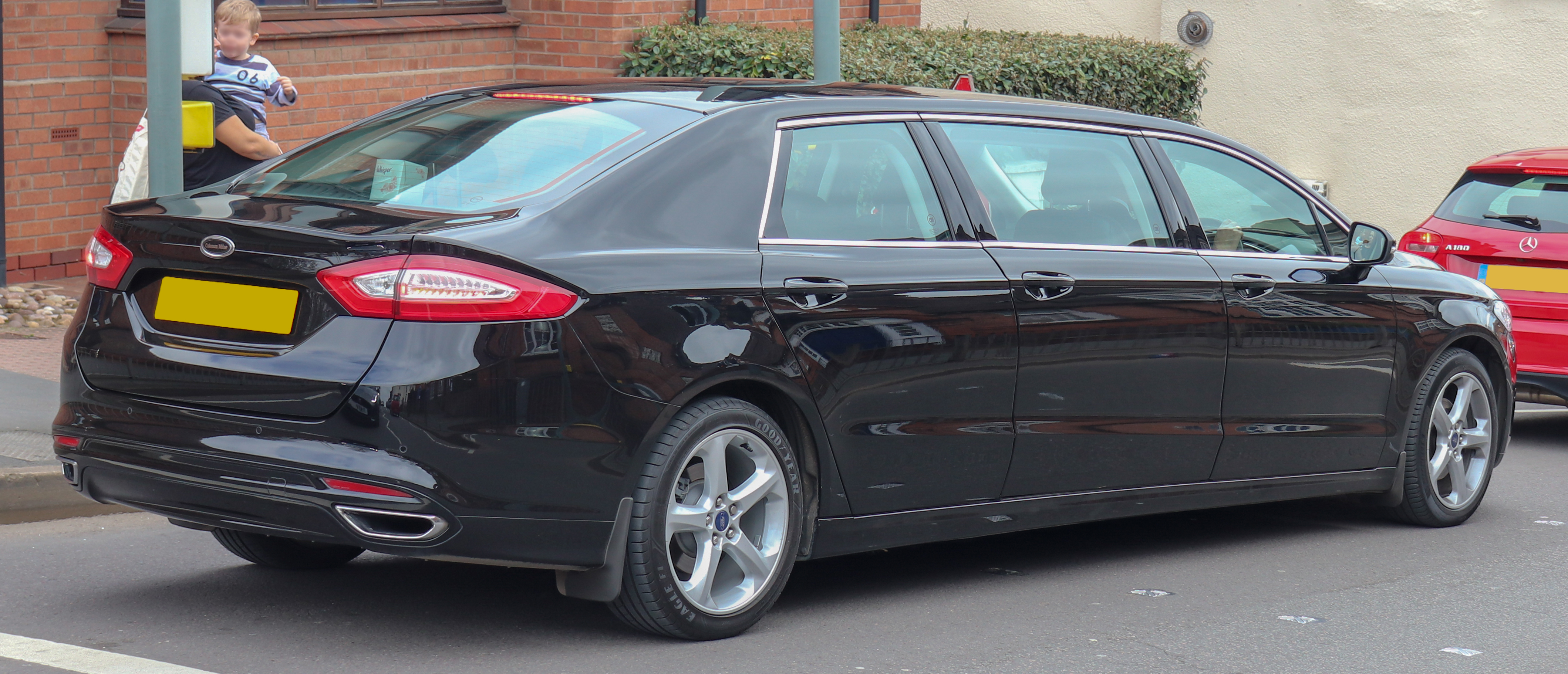 2017 Coleman Milne Rosedale Automatic 2.0 Rear Taken in Warwick